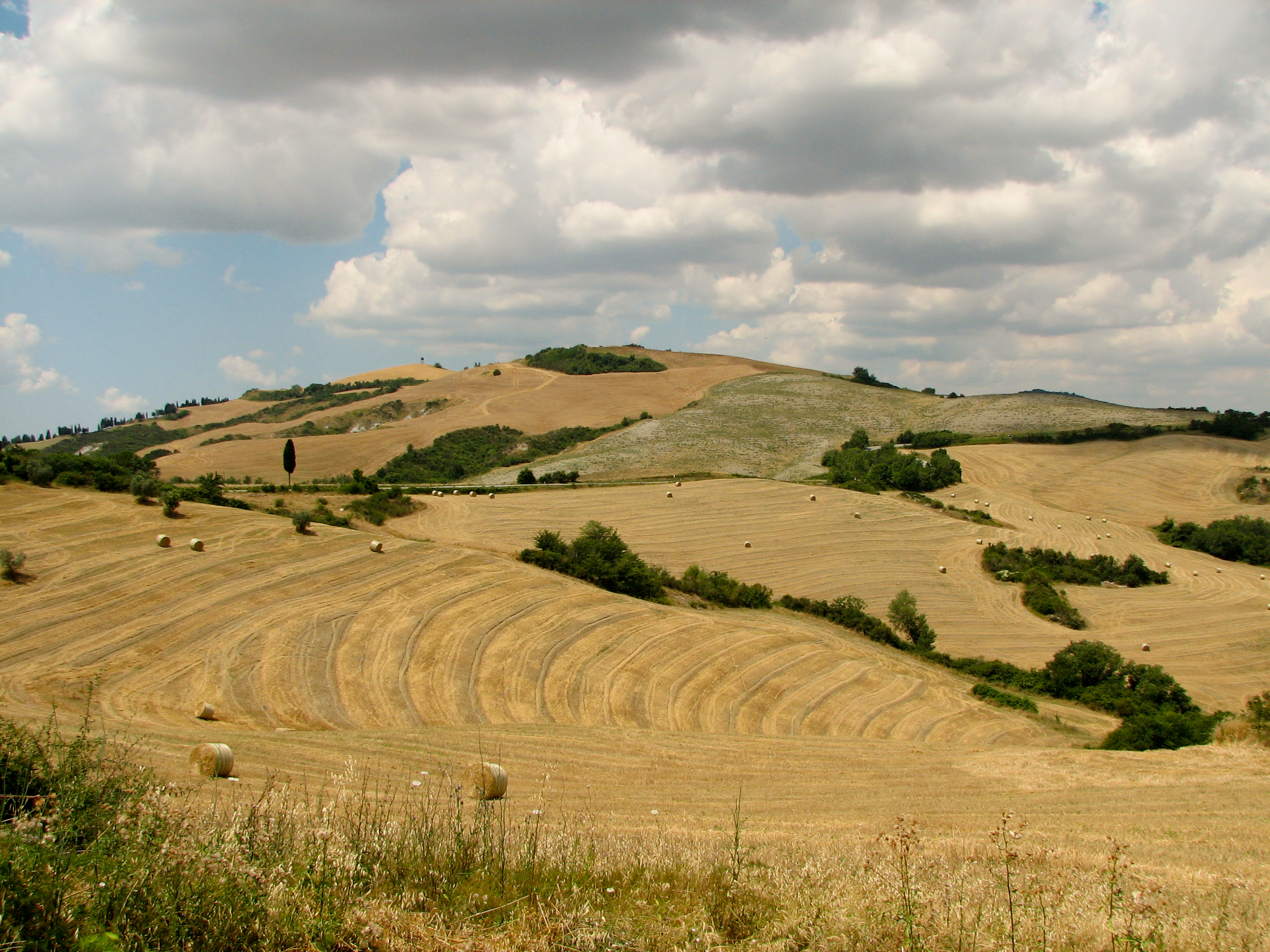 Tuscany landscape west of Siena with agricultural area